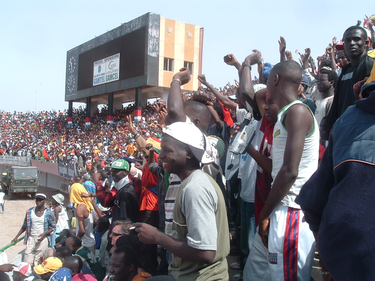 Guinea fans at a Gambia v Guinea football match at the Independence Stadium.